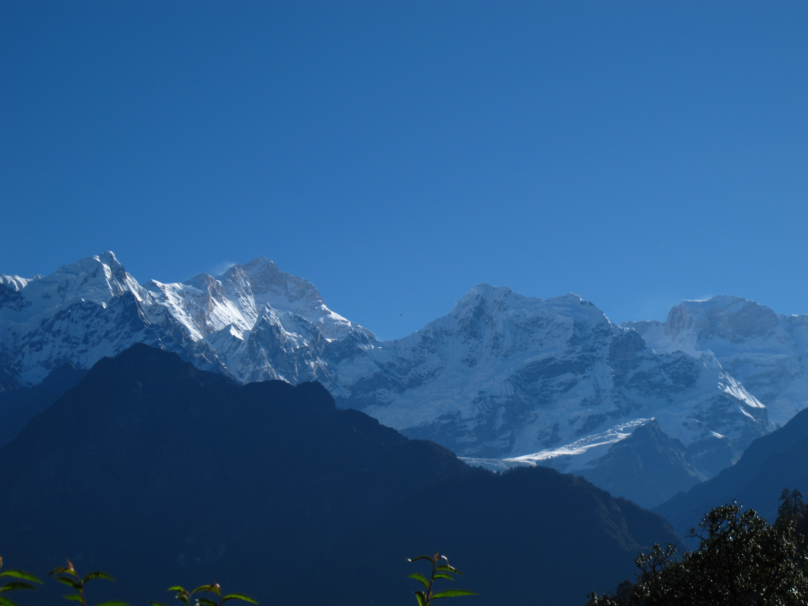 Manaslu (8163m) and Ngadi Chuli (7871m, on the far right) from Manang Valley